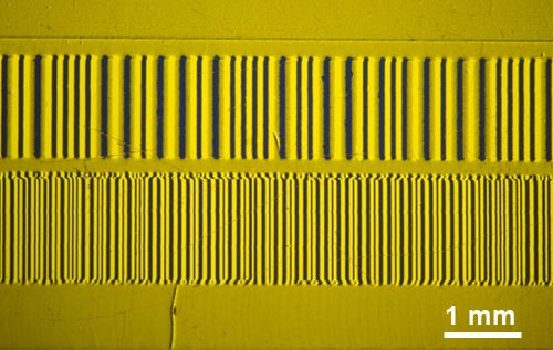 Recording of the magnetic structures of a magnetic stripe card (recorded using CMOS-MagView). Partial data from previous recordings seems visible at the edges.